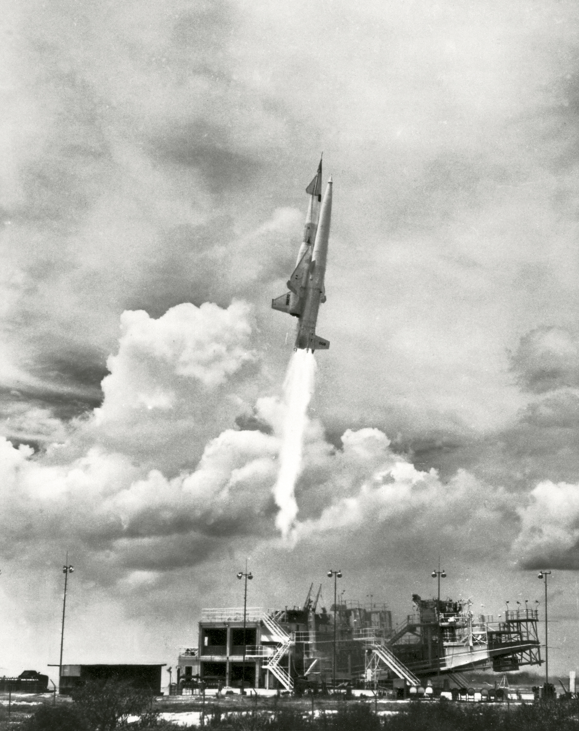 The launch of U.S. Air Force cruise missile Navaho in 1957. Even though it never reached operational status before cancellation in 1957, Navaho research development contributed to the aeronautical research program. The heavy Navaho vehicle weighed 136,000 kilograms, capable of Mach-3 speeds, and used an improved V-2 engine, was boosted into the air by three liquid-propellant rocket engines of 135,000 pounds of thrust each. Variants of these engines were developed for Army's Redstone and Jupiter rockets.